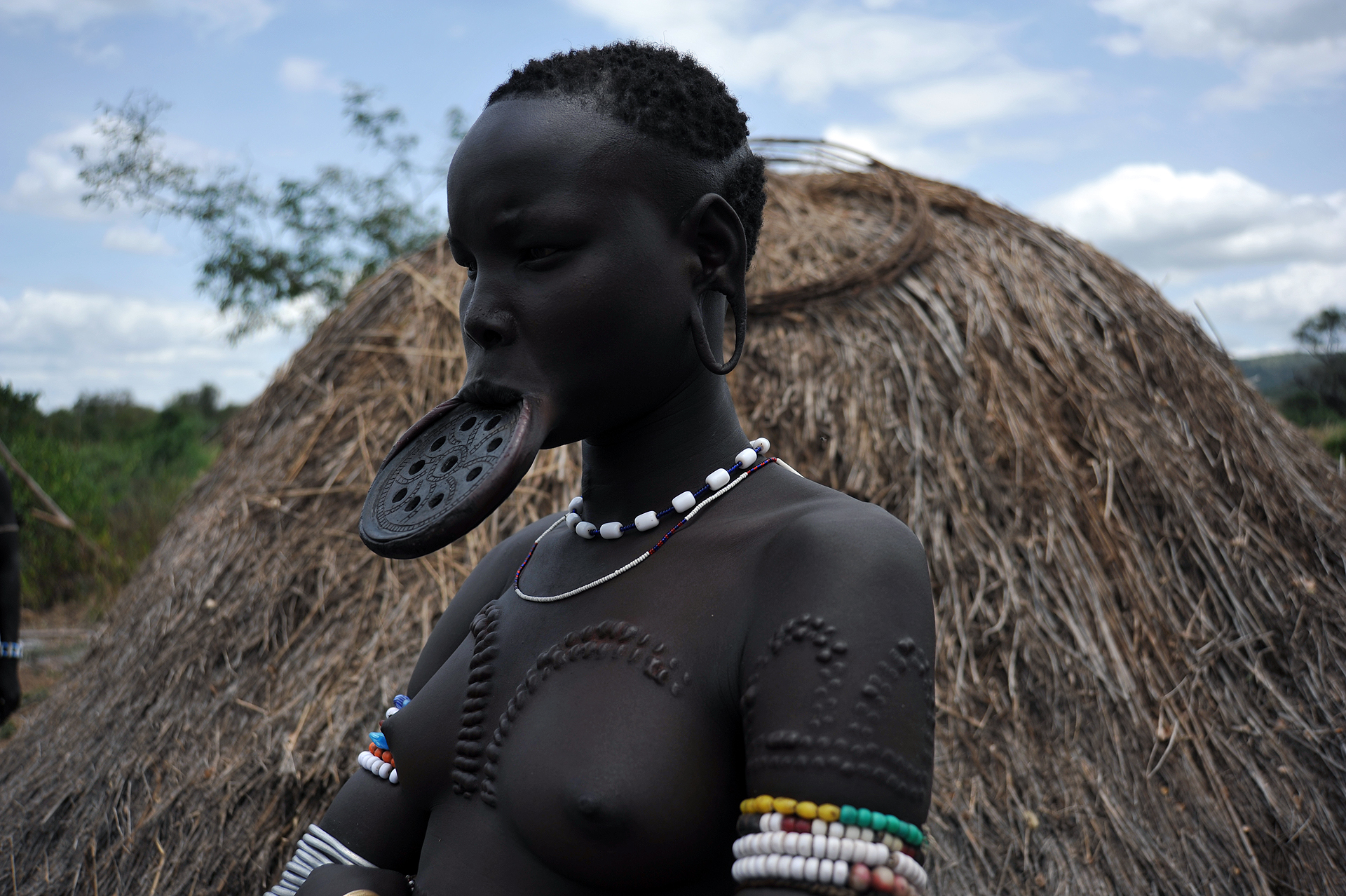 Ethnic Mursi women by her Lip plate at Omo Valley, Ethiopia.